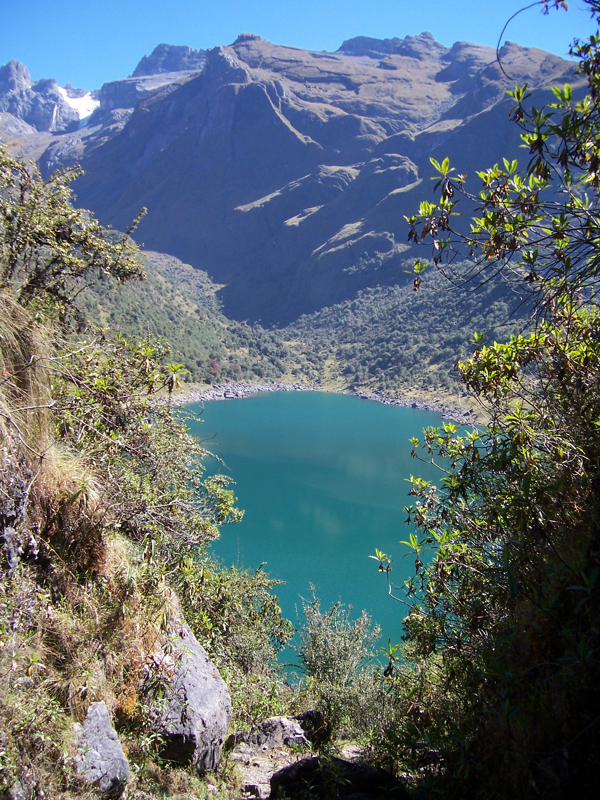 Entryway to Uspaccocha Lagoon, Ampay